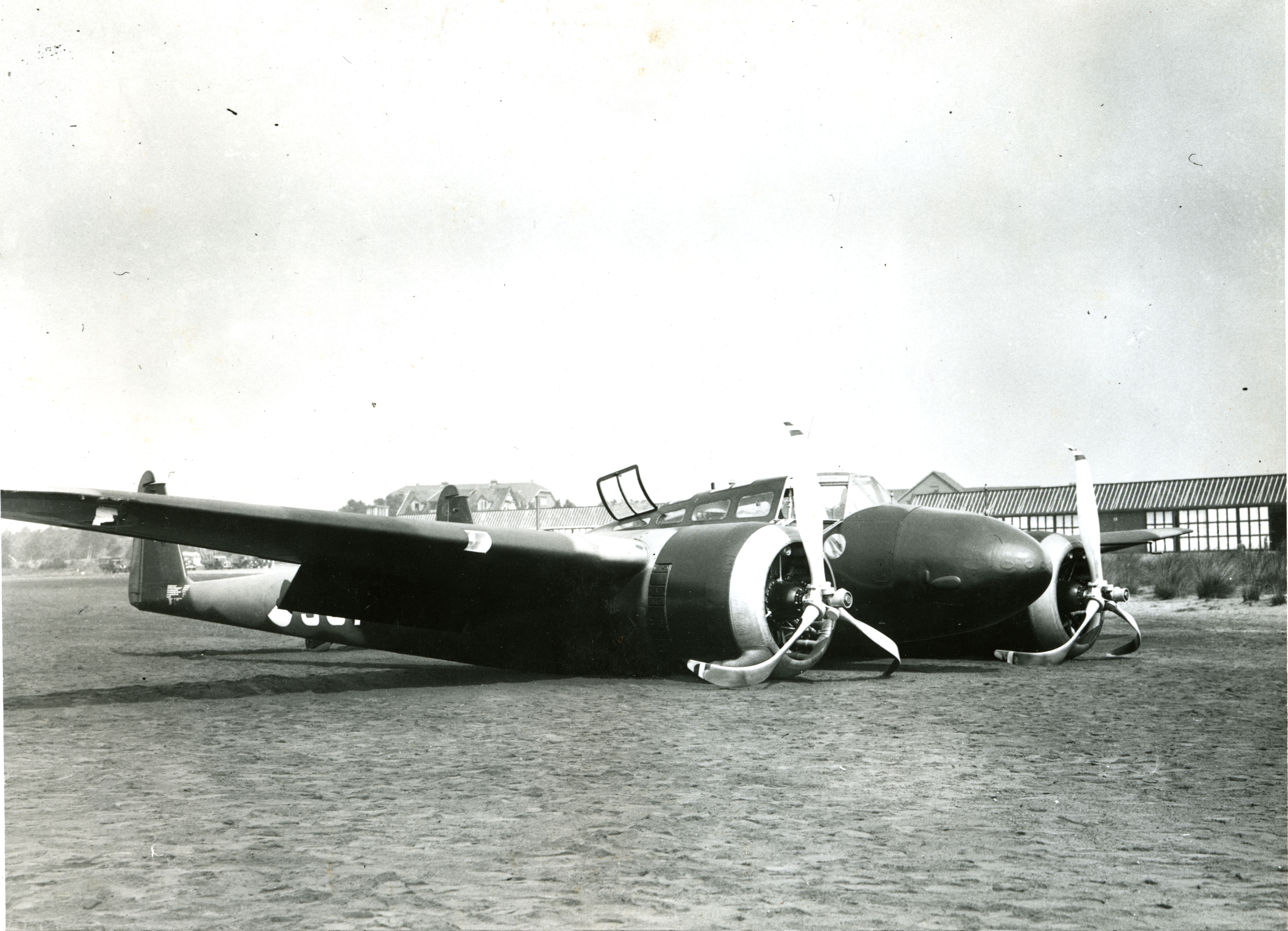 Eerste buiklanding in Nederland Sandberg 26 aug 1939